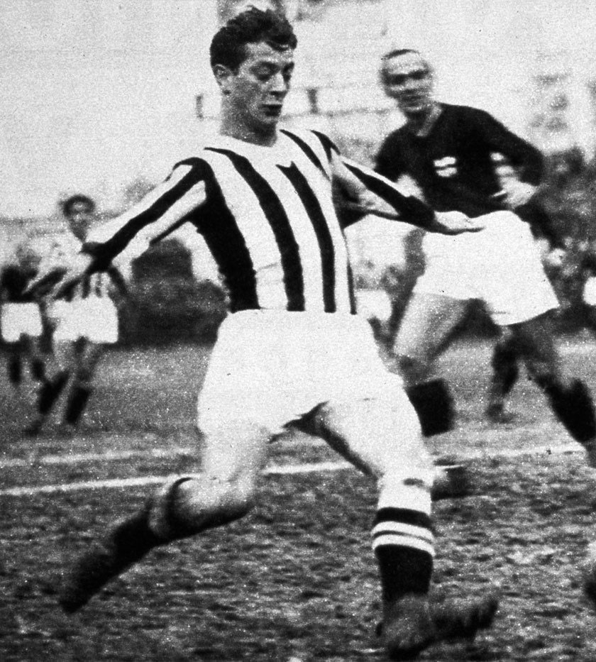 Milan, San Siro, December 10, 1933. Italian-Argentine footballer Renato Cesarini in action with F.B.C. Juventus in the away defeat versus Milan F.C. (1-3), valid for the 13th round of the Italian Championship 1933–34 Serie A.